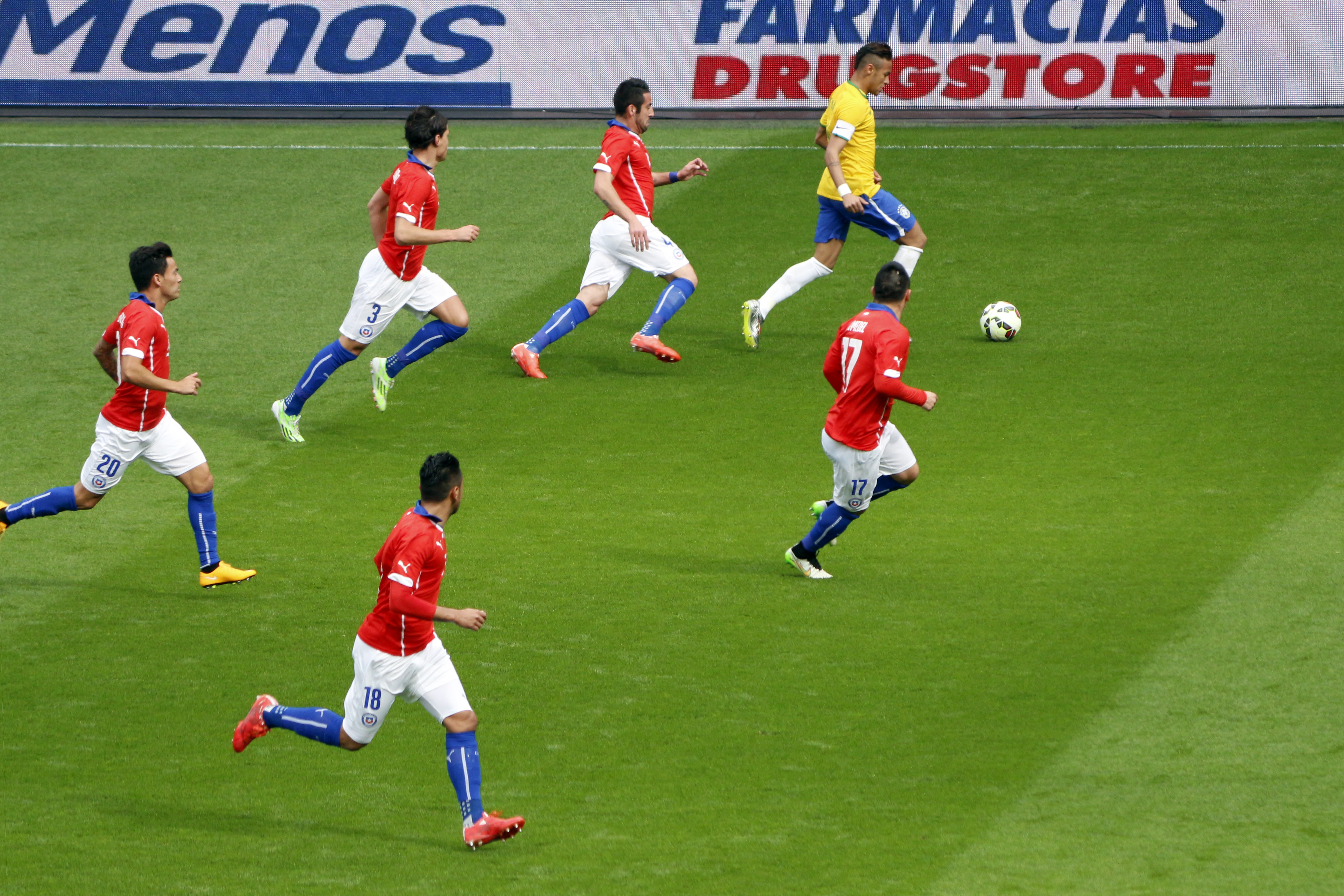 Neymar Charles Aránguiz Gary Medel Gonzalo Jara Mauricio Isla Miiko Albornoz Brazil vs Chile, International Friendly, 29th March, 2015, Emirates Stadium, London